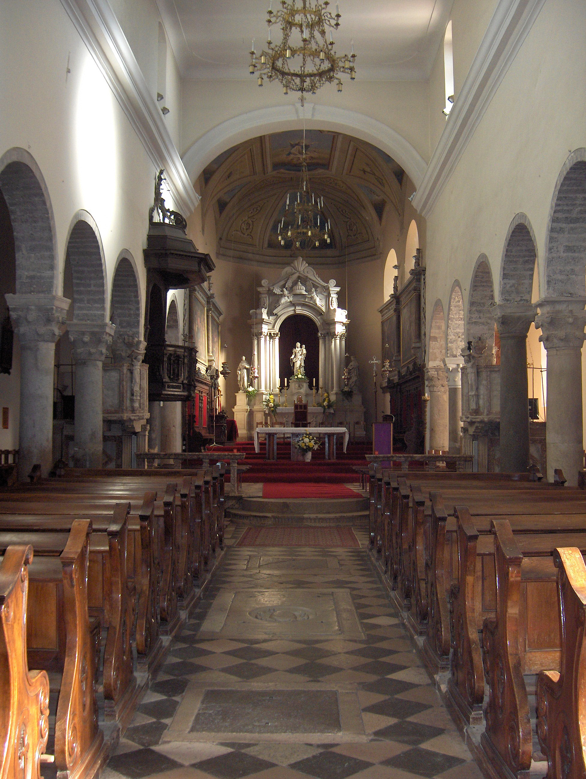 Central nave of the Church of the Assumption, krk, on the island of Krk, Croatia